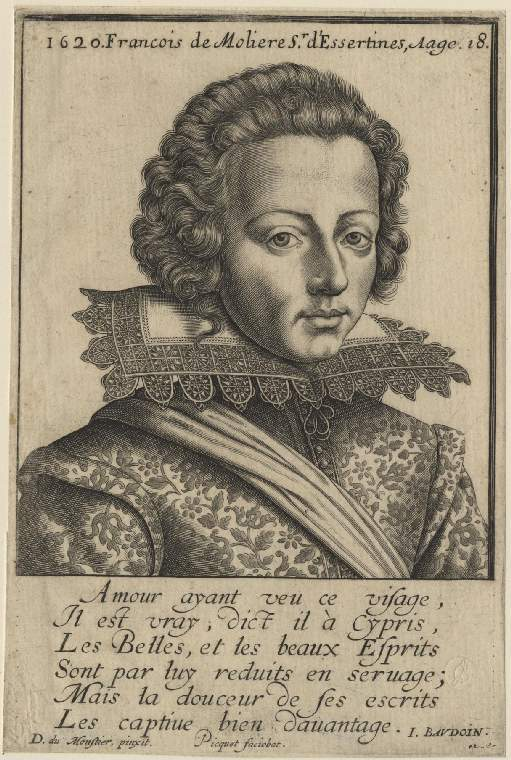 Engraved portrait of François de Molière d'Essertines, c. 1620.